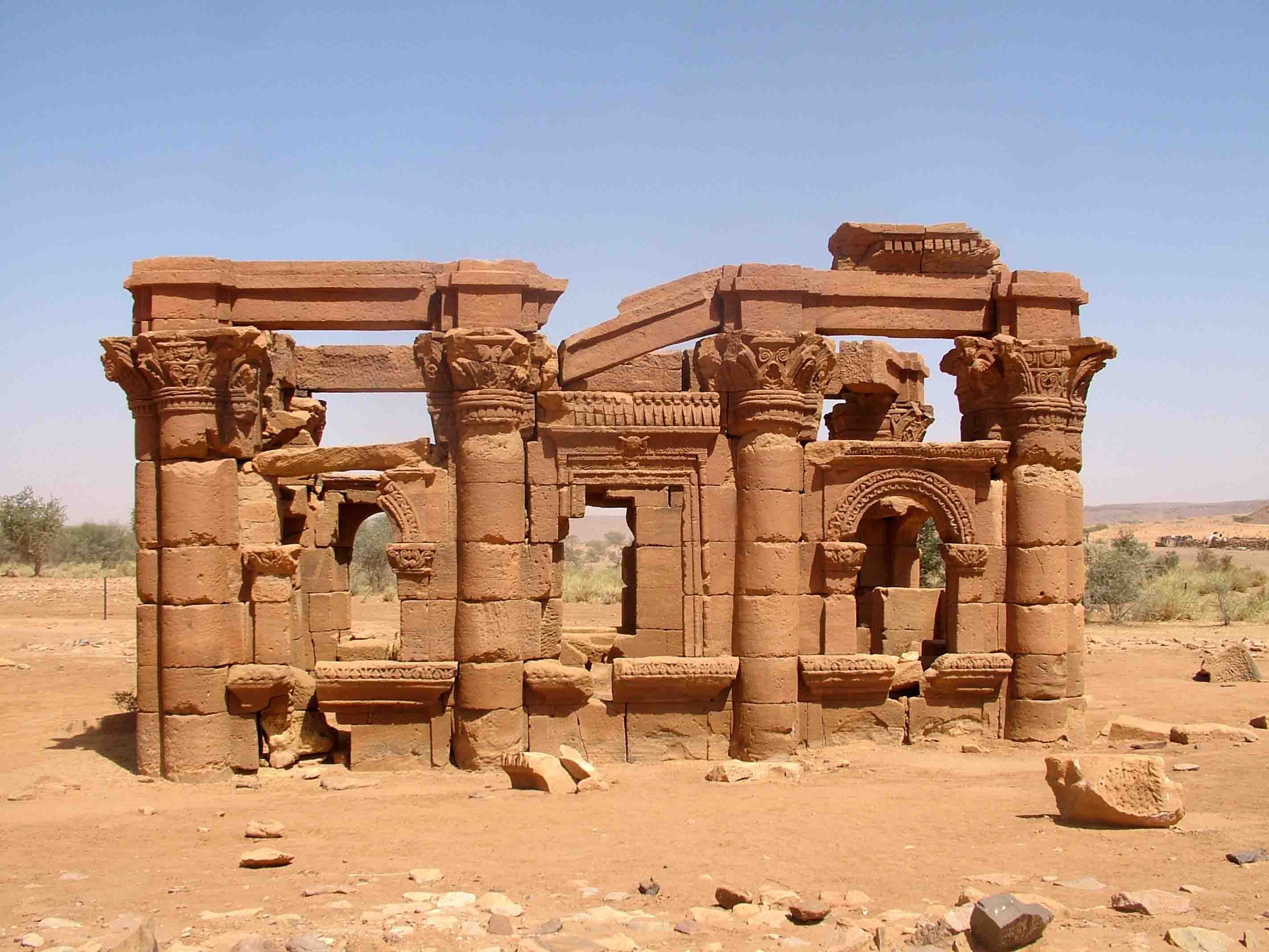 "Roman kiosk " in Naqa, Nubia, Sudan